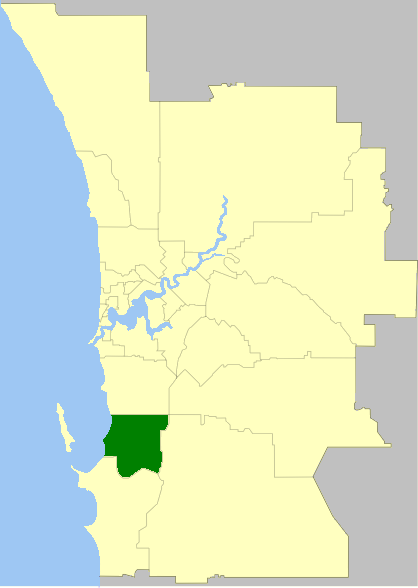 Location of the Local Government Area Town of Kwinana in Perth, Western Australia